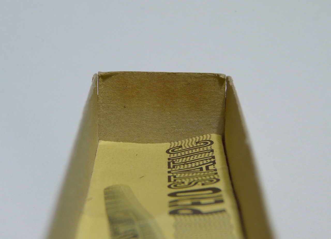 alphaburn on the upper part of the cardboard box, the box contains an anti-static brush for over 50 years with Am-241 source